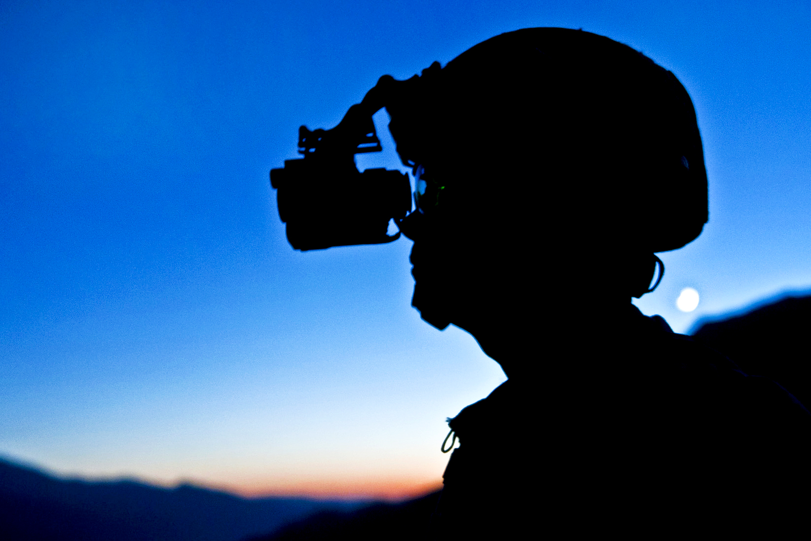 Soldier wearing night vision goggles.